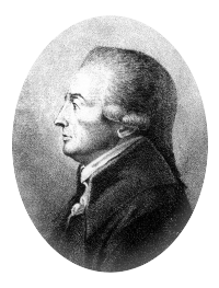 Salomon Maimon, Jewish Philosopher. The book "The Autobiography of Salomon Maimon with an Essay on Maimon’s Philosophy". London, The East and West Library, 1954 states the painter as Arndt without further details.